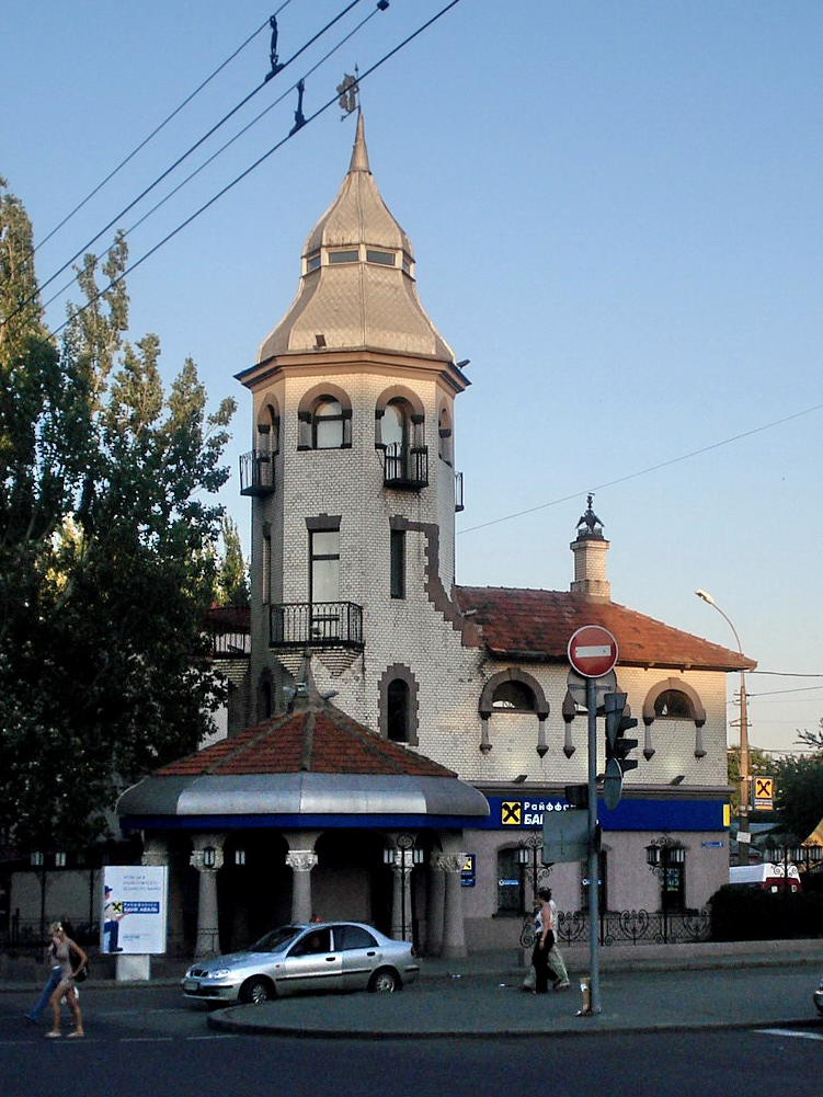 Visiting card of Mykolaiv